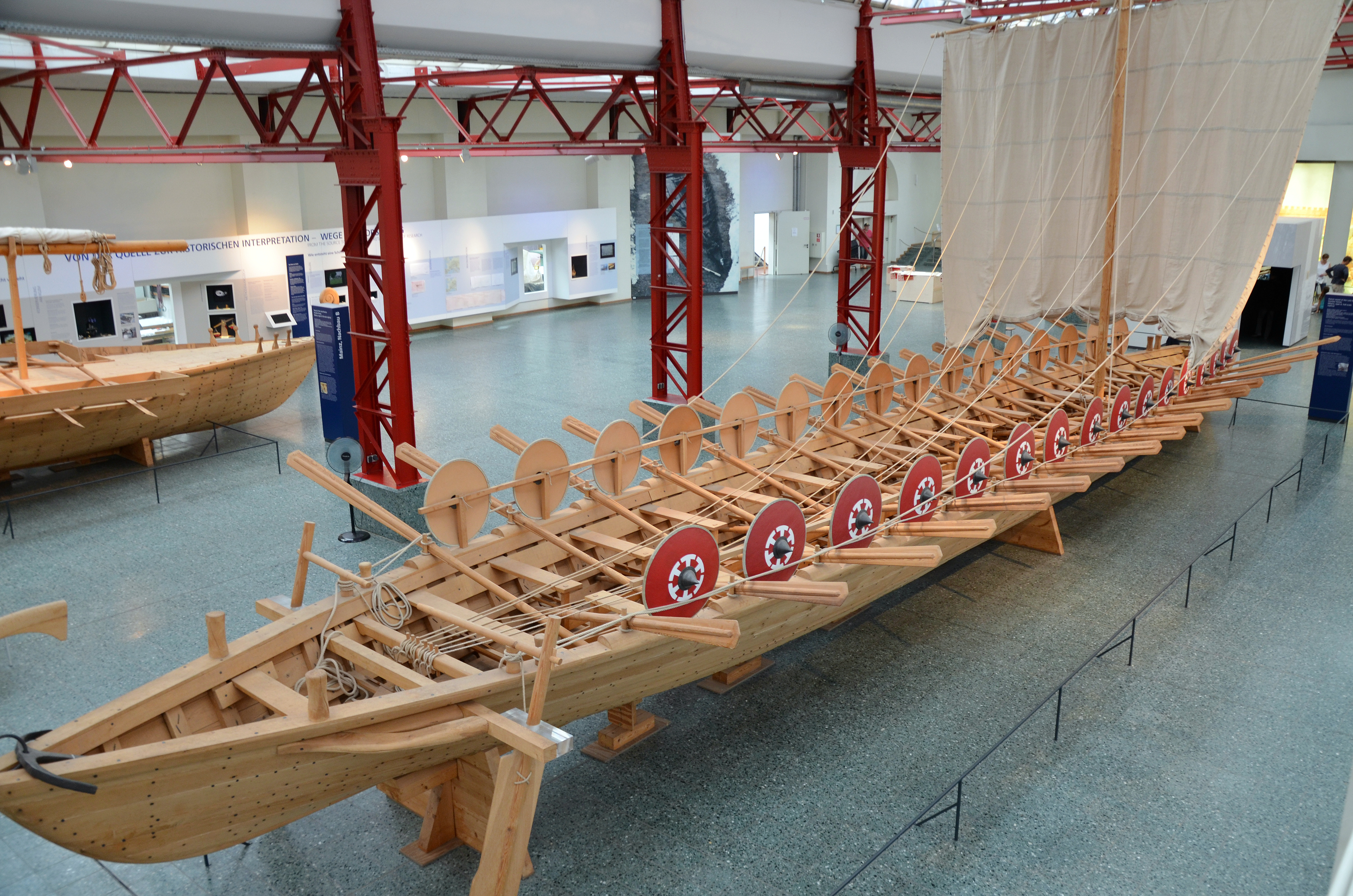 Replica of a Roman military troop transporter ship (navis lusoria) from Mainz (Type Mainz A), Museum für Antike Schiffahrt, Mainz